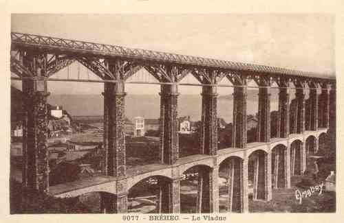 Le viaduc de Bréhec (Britanny, France), built for the Chemins de Fer des Côtes-du-Nord, a former local railway company. The viaduc was dismantled in 1972. .